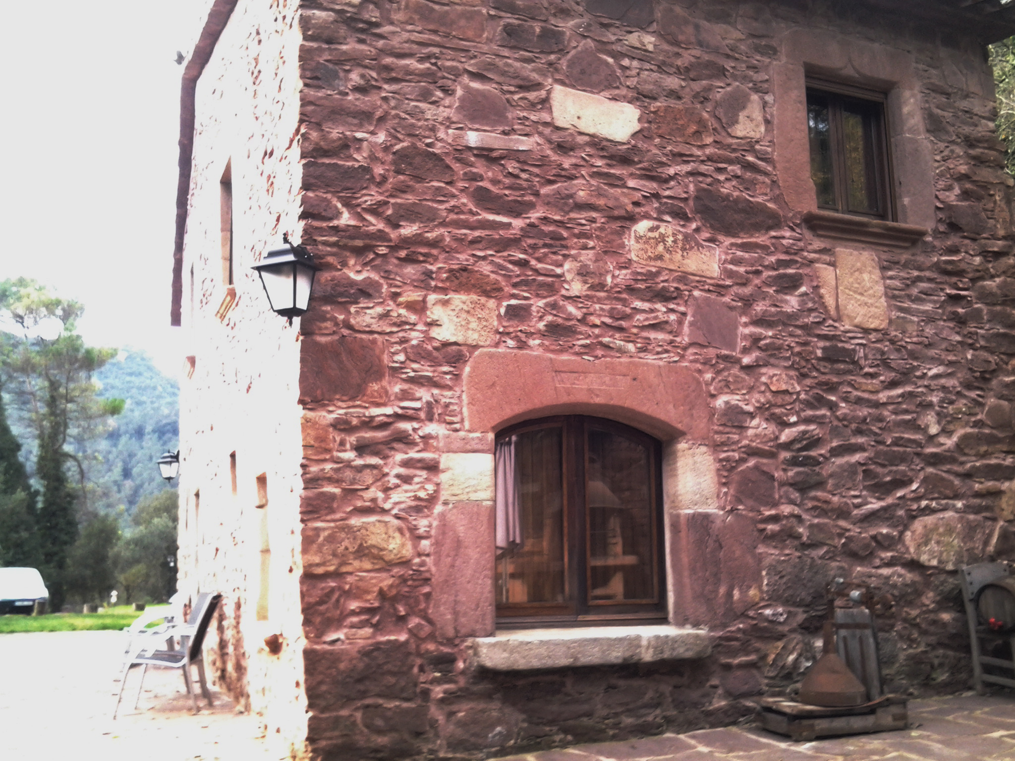 Cal Pou Old Door, in Cal Músich window, Tagamanent (Catalonia)